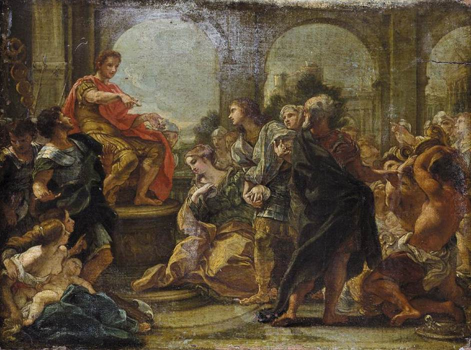 Painting depicting historical episode between Scipio Africanus and Allucius. Oil on canvas mounted on panel, 33 x 44 cm.